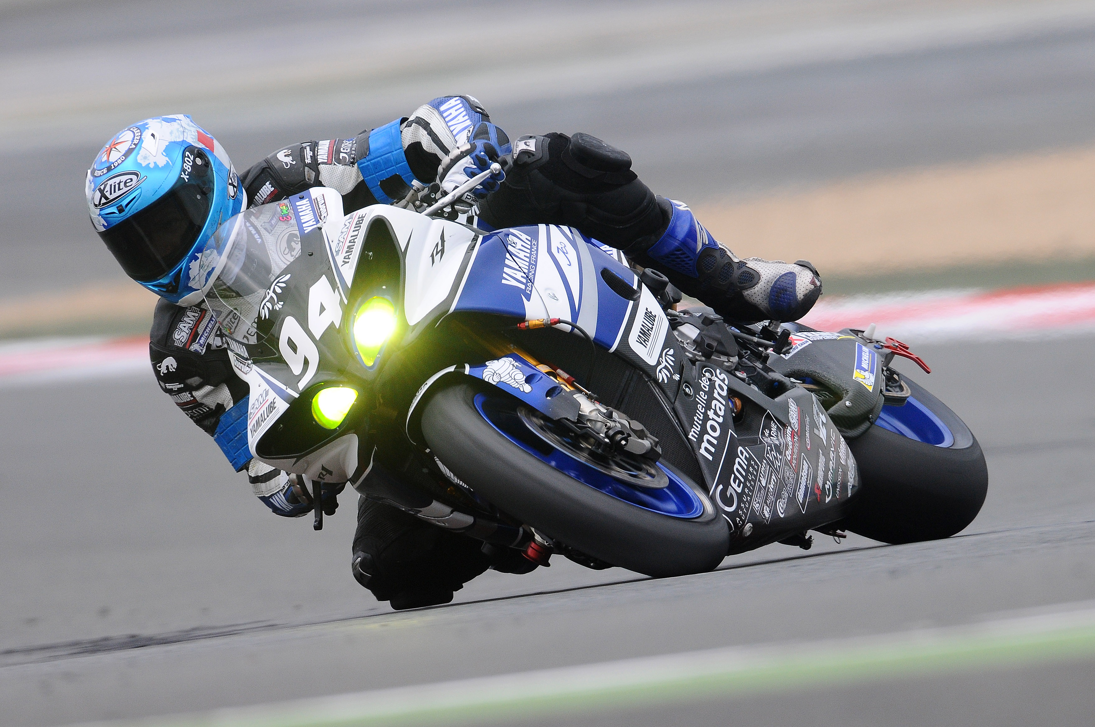 David Checa in Valencia Test of SBK